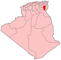 Map of Algeria showing Khenchela province.